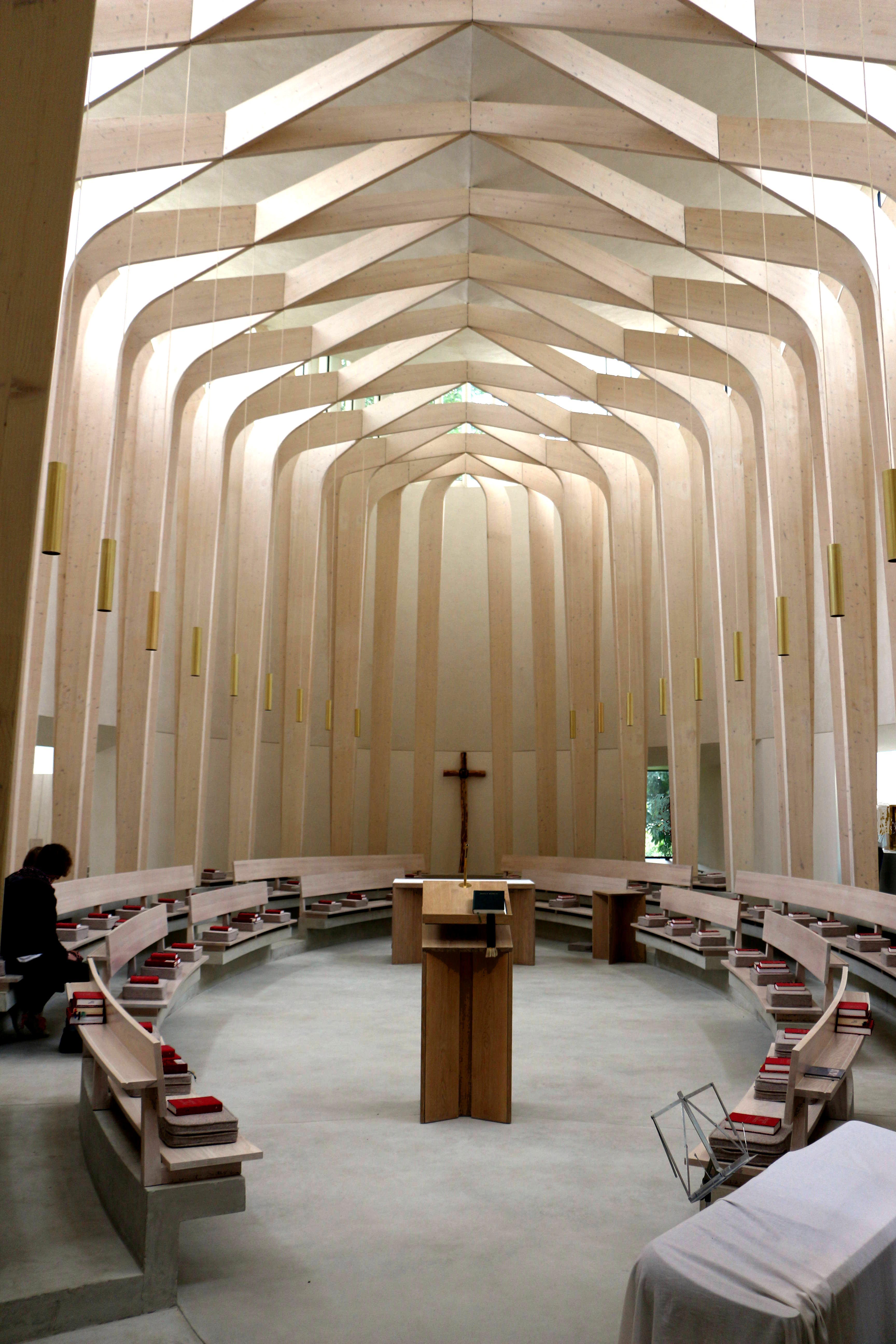 Interior of Bishop Edward King Chapel, Ripon College Cuddesdon, Oxfordshire